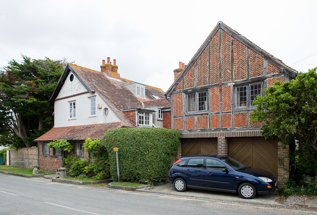 Old Haven, The Street, Itchenor The last house on the east side of The Street before the sea.